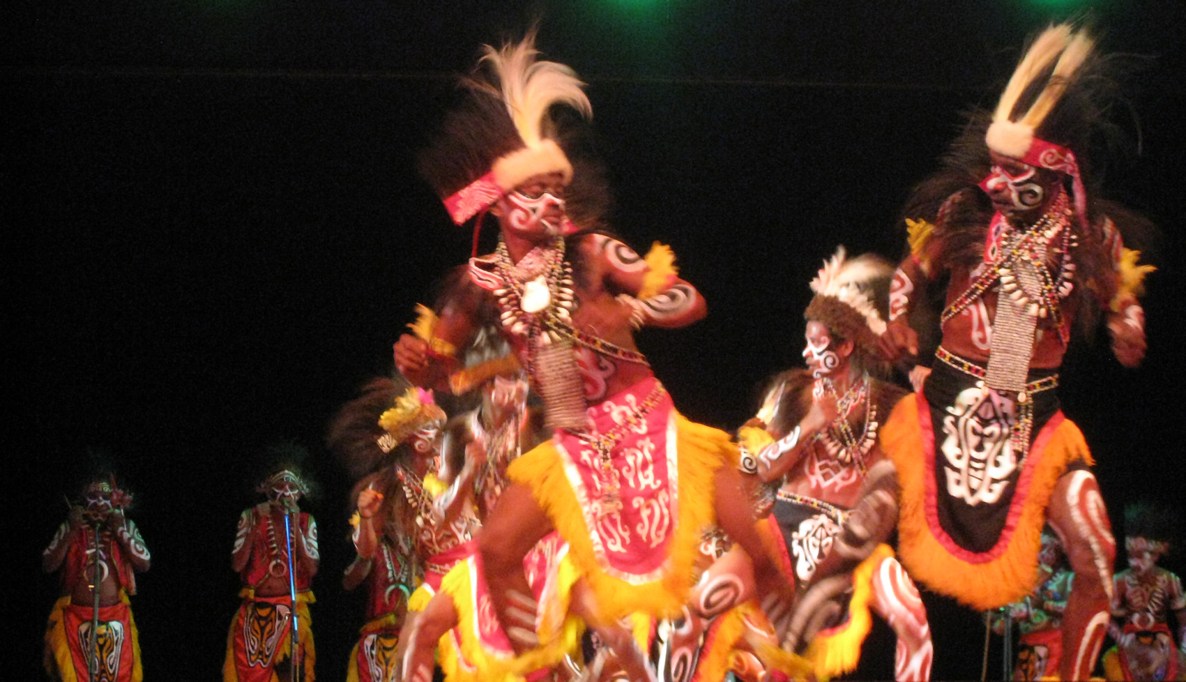 The Papuan dance from Yapen regency in Papua province, depicting a tribal war between Menawai and Ambai tribes that inhabit Yapen area. The dance ended with peace ceremony between two tribes under great Ondoafi guidance that unite the two tribes that actually share common ancestor. Festival Nasional Kesenian Tari Nusantara, 2011. Gedung Kesenian Jakarta.